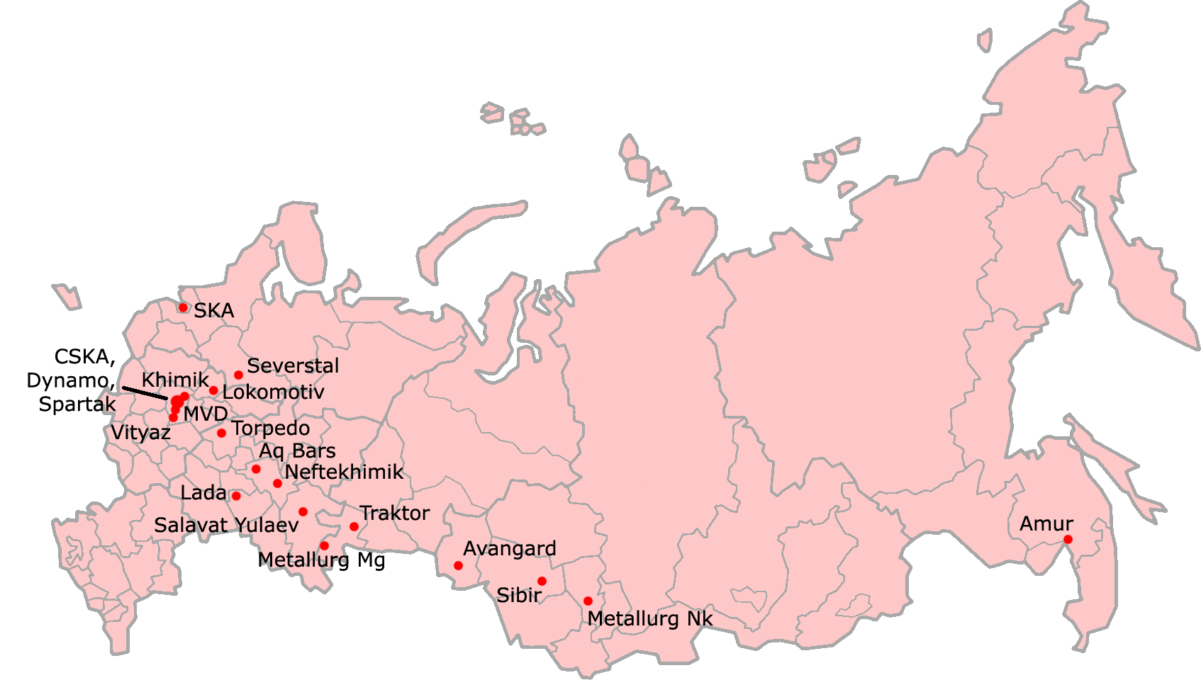 Map showing locations of the Russian Super League teams. Based on Image:BlankMap-RussiaDistricts.png.